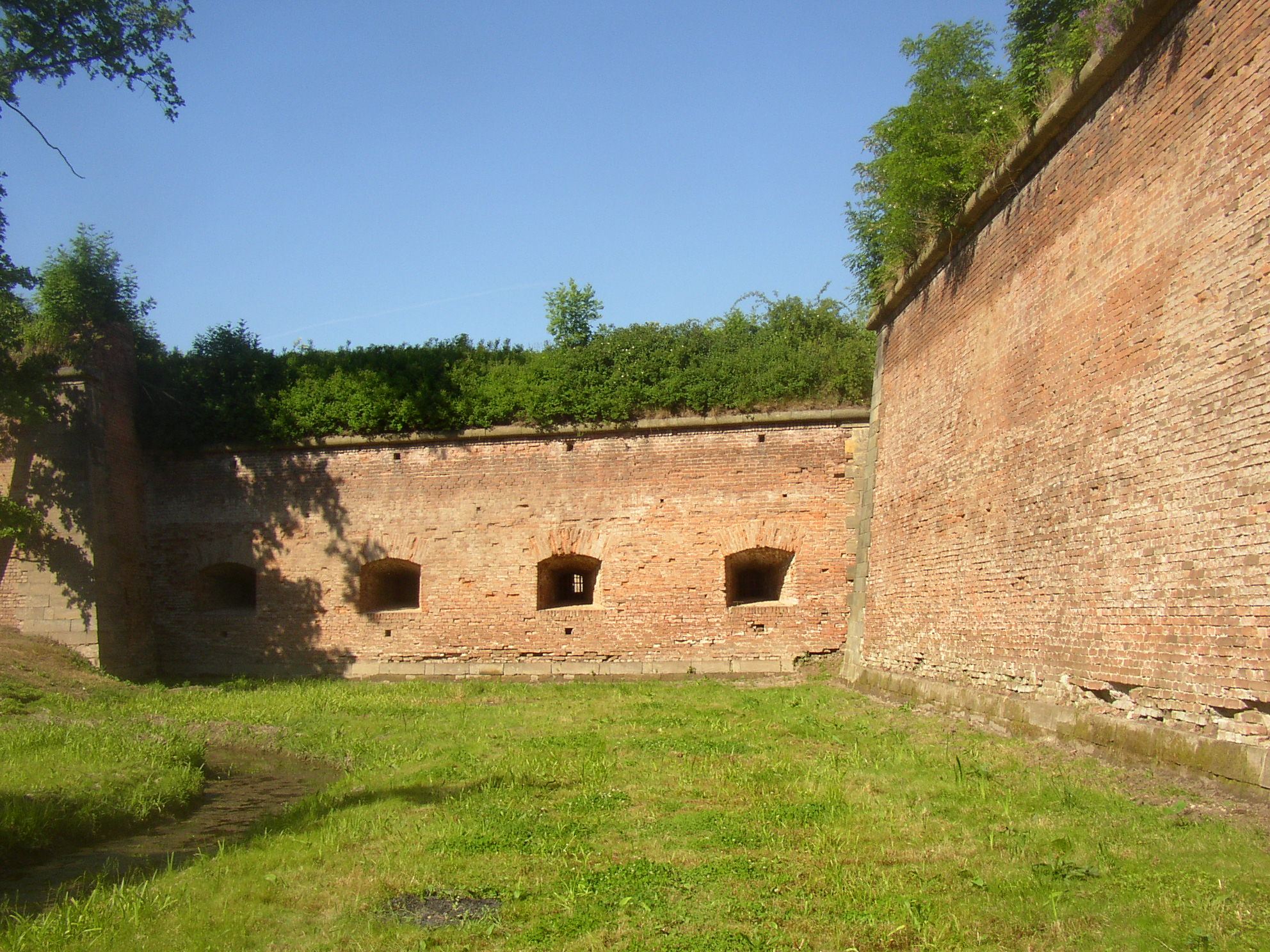 A small example of extensive fortification of Terezín, in this instance from western side of the fortress. Artillery casemates providing cover to the right flank of Ravelin XVIII as seen from bottom of the moat (the escarpe of the ravelin is visible in the right.